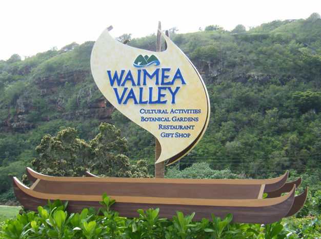 Signage as you enter Waimea Valley, Oahu, Hawaii